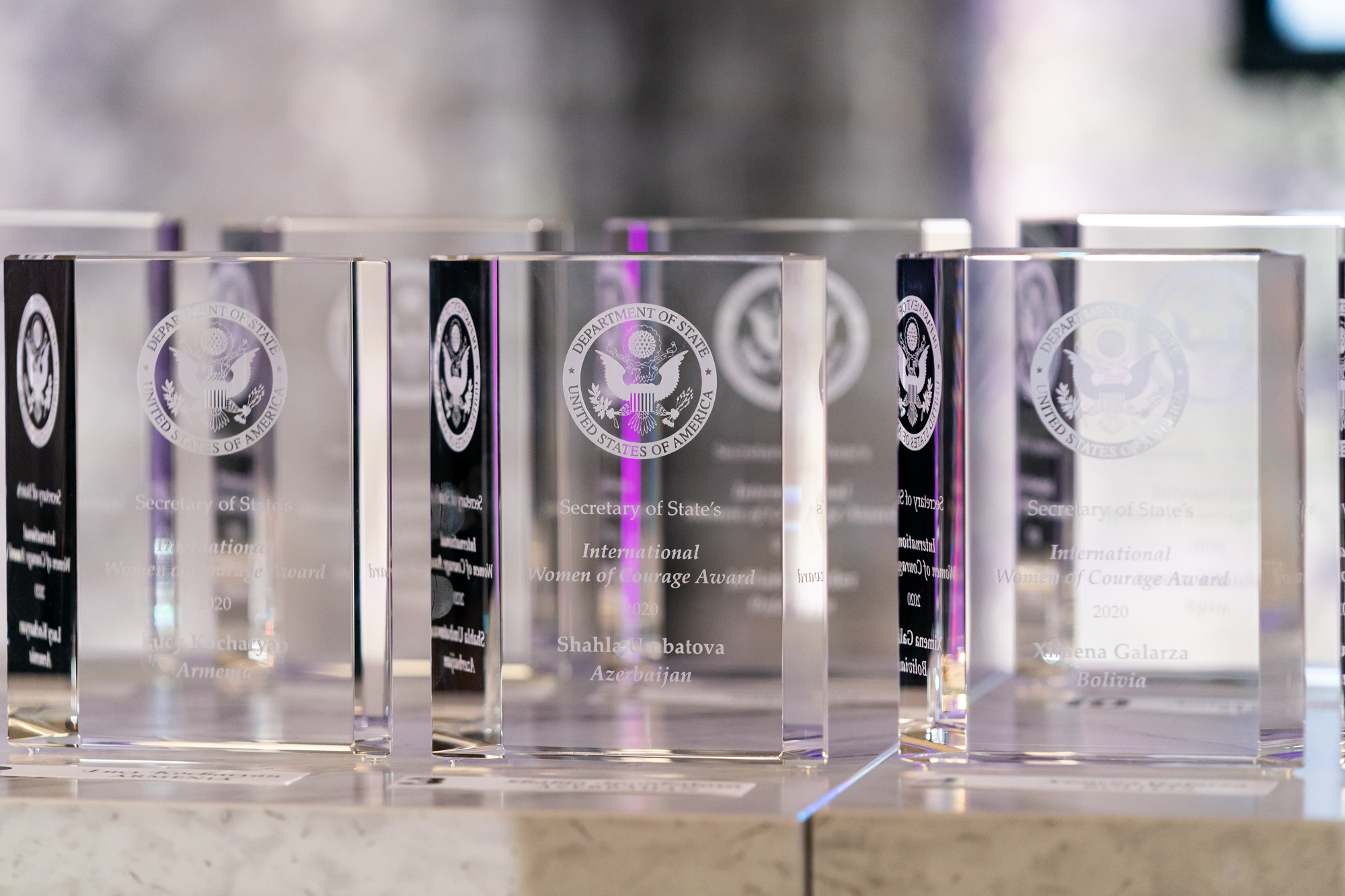 The International Women of Courage Awards are seen during a ceremony Wednesday, March 4, 2020, at the U.S. State Department in Washington, D.C. (Official White House Photo by Andrea Hanks)